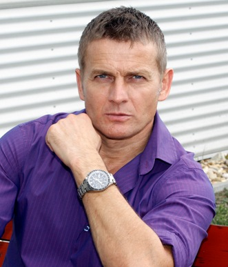 Károly Rékasi actor.